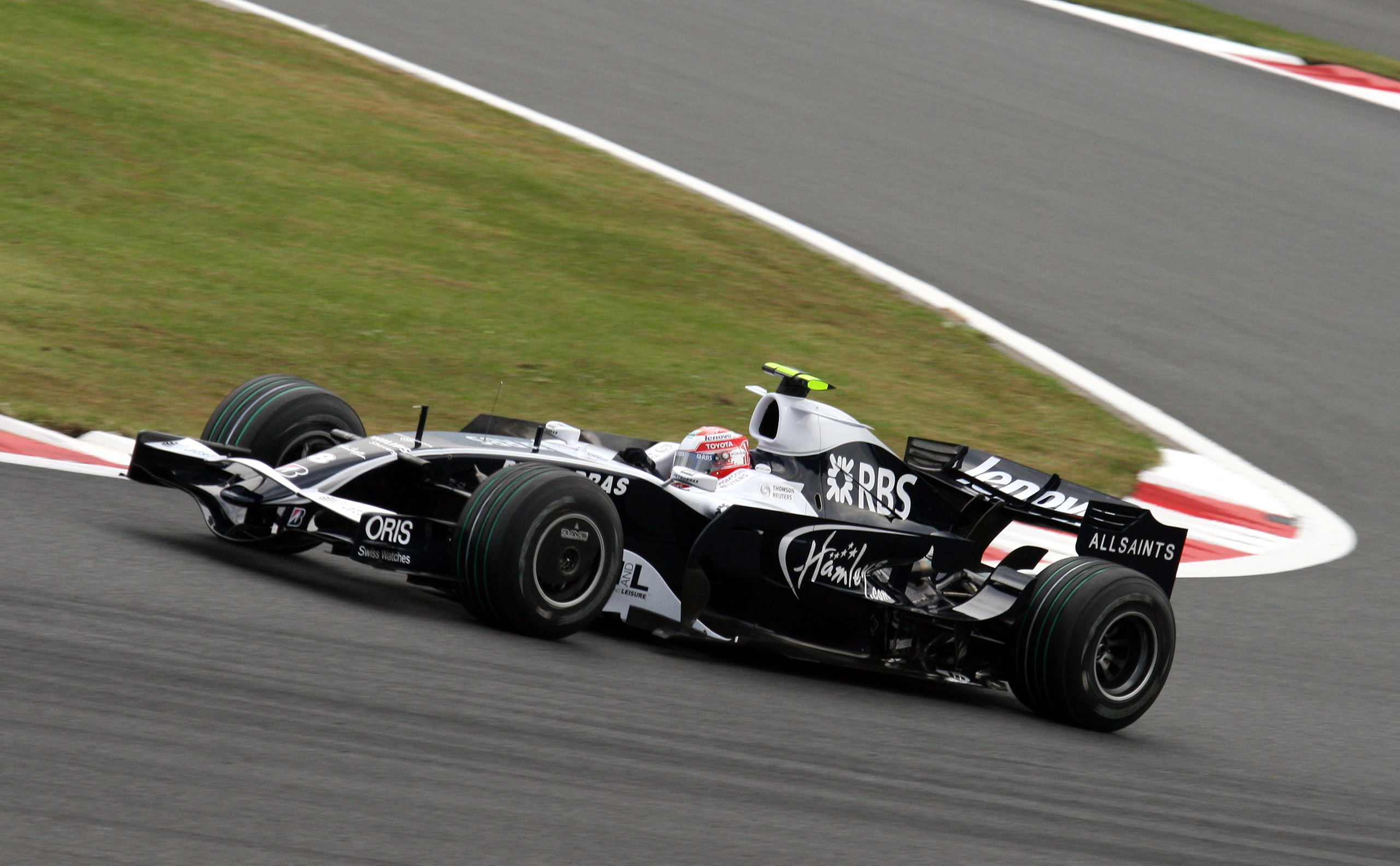 Formula One 2008 Rd.16 Japanese GP: Kazuki Nakajima (Williams) at free practice.